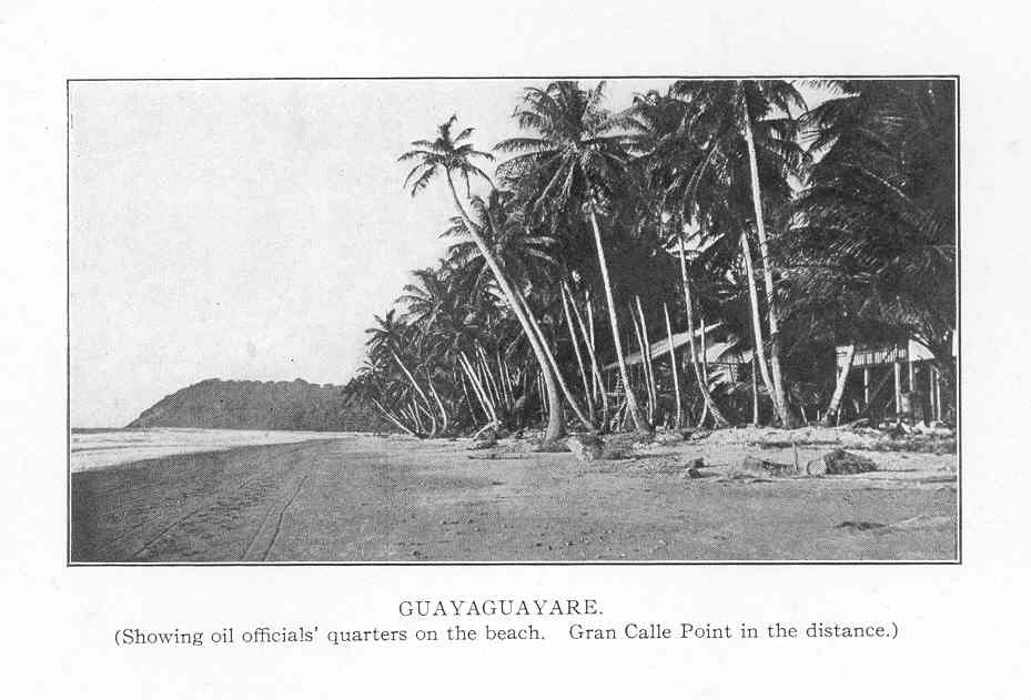 Guayaguayare Showing oil officials' quarters on the beach. Gran Calle Point in the distance Subject: Guayaguayare (Trinidad and Tobago), Capes (Coasts)--Trinidad and Tobago Geographic Subject: Trinidad and Tobago--Guayaguayare Tag: Coasts